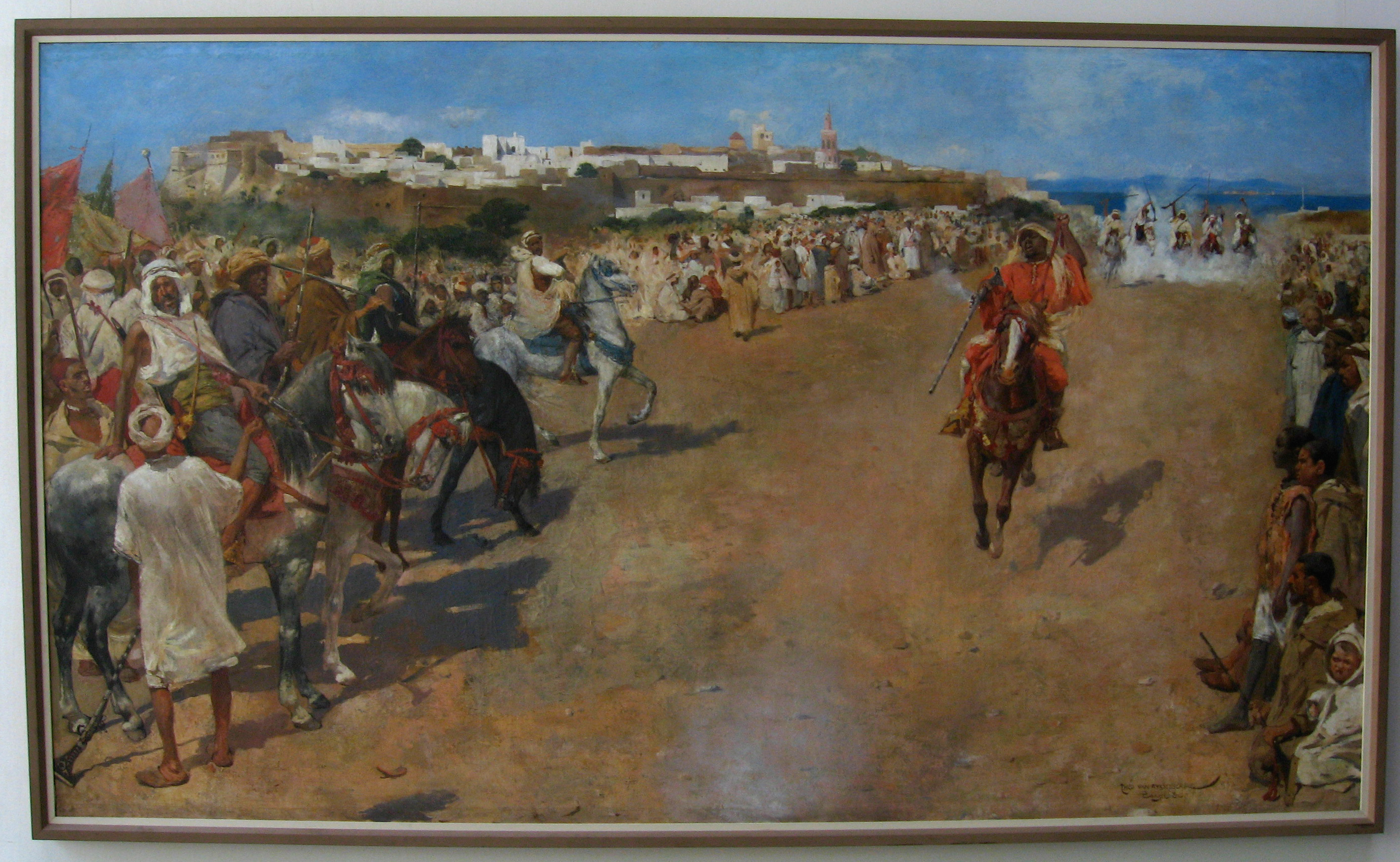 Théo van Ryselberghe: Fantasia Arabe (1884). Royal Museums of Fine Arts of Belgium.